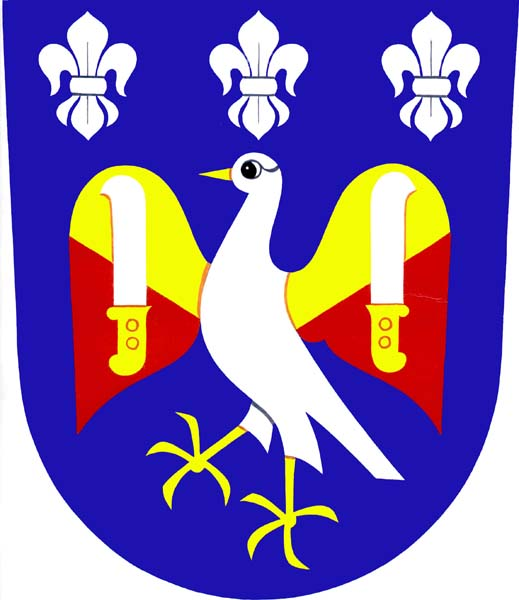 Municipal coat of arms of Horní Újezd village, Přerov District, Czech Republic.